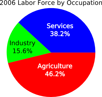 Economy of Armenia: 2006 Labor Force by Occupation (source: CIA World Factbook 2008)